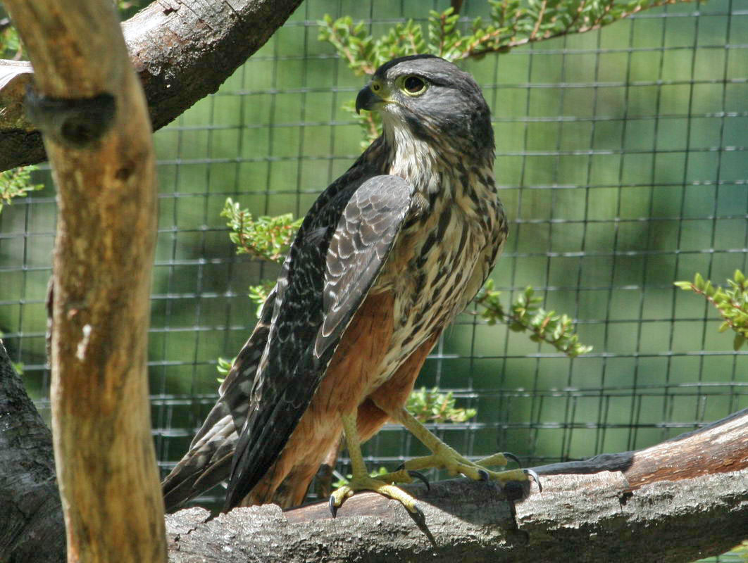 New Zealand Falcon (Falco novaeseelandiae) - Kiwi Wildlife Park, New Zealand